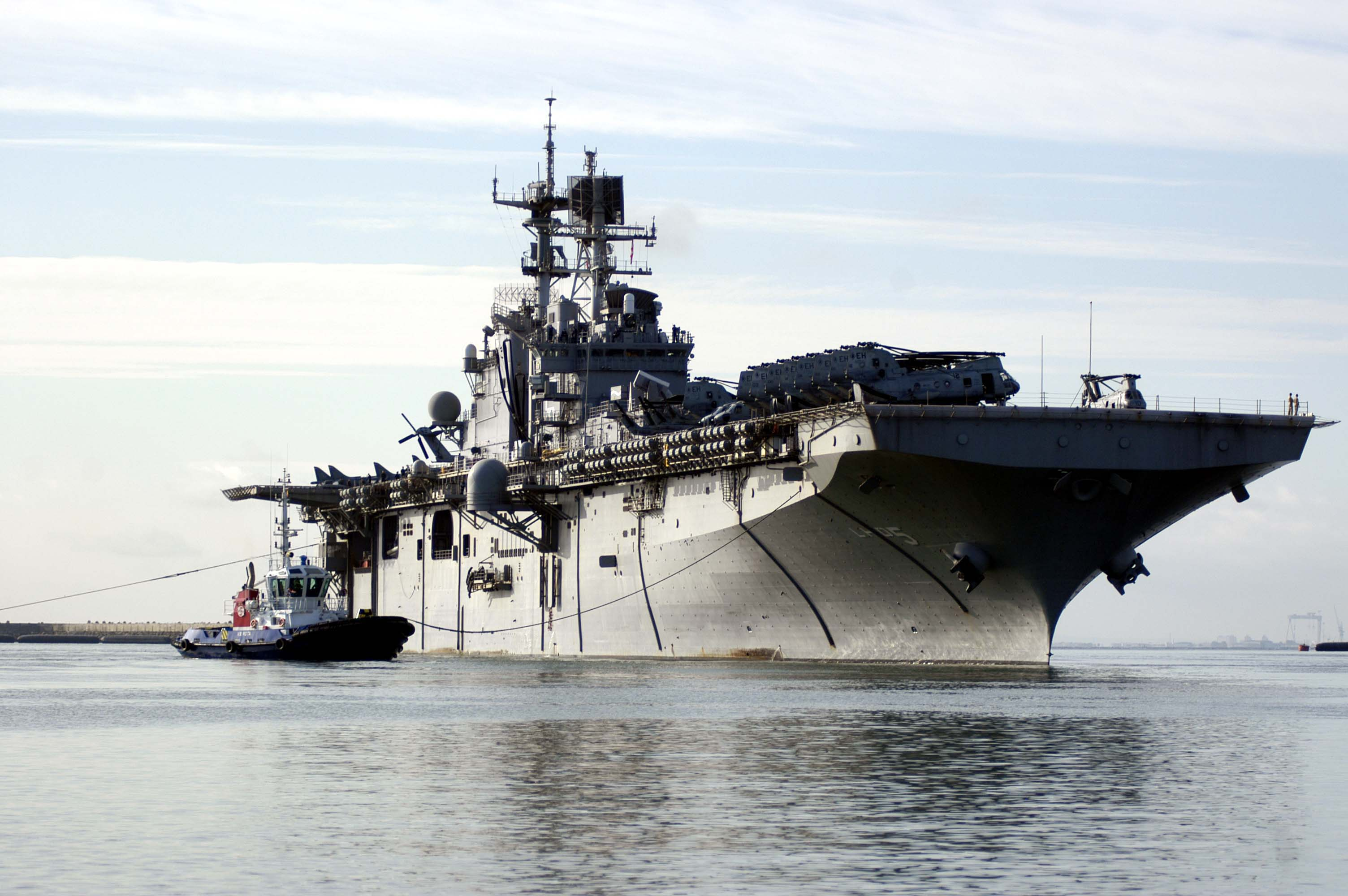 ROTA, Spain (June 20, 2007) – Amphibious assault ship USS Bataan (LHD 5) pulls out of the Naval Station Rota Harbor. Bataan Expeditionary Strike Group conducted a port visit to Rota after conducting maritime operations in support of the global war on terrorism. U.S. Navy photo by Mass Communication Specialist 2nd Class Nathan Schaeffer (RELEASED)